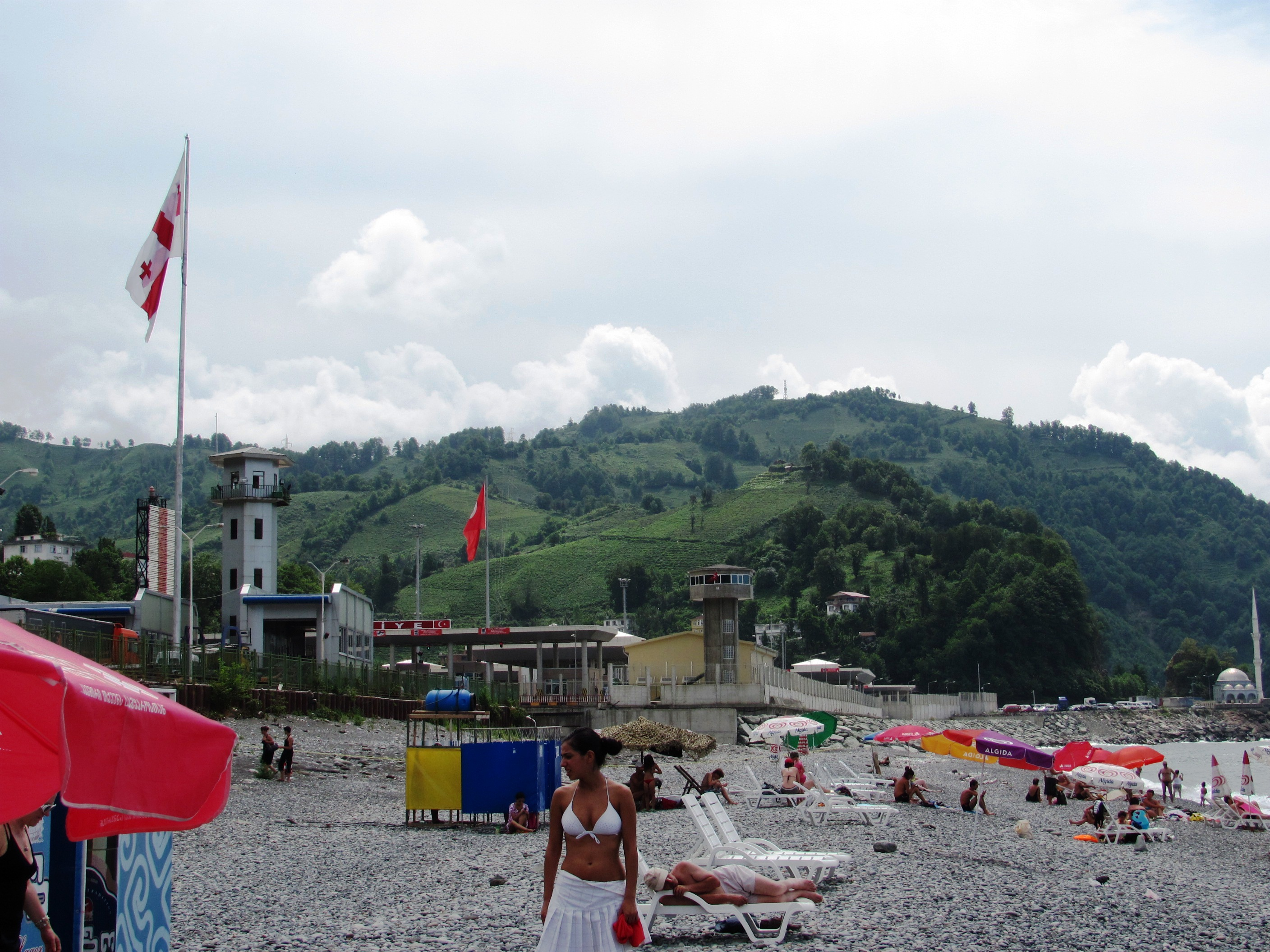 Adjara in 2010